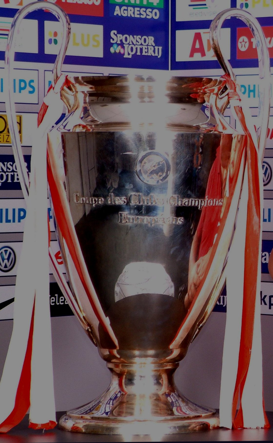 The European Cup 1987–88 won by PSV Eindhoven